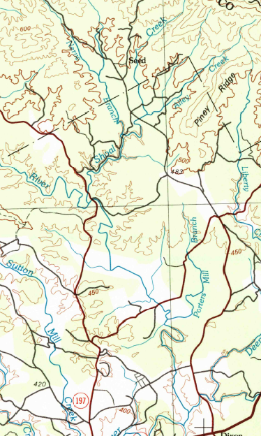 HUC 031300010202 topographical map, using the 1981 Toccoa 30x60 grid, showing Shoal Creek and the Soque River